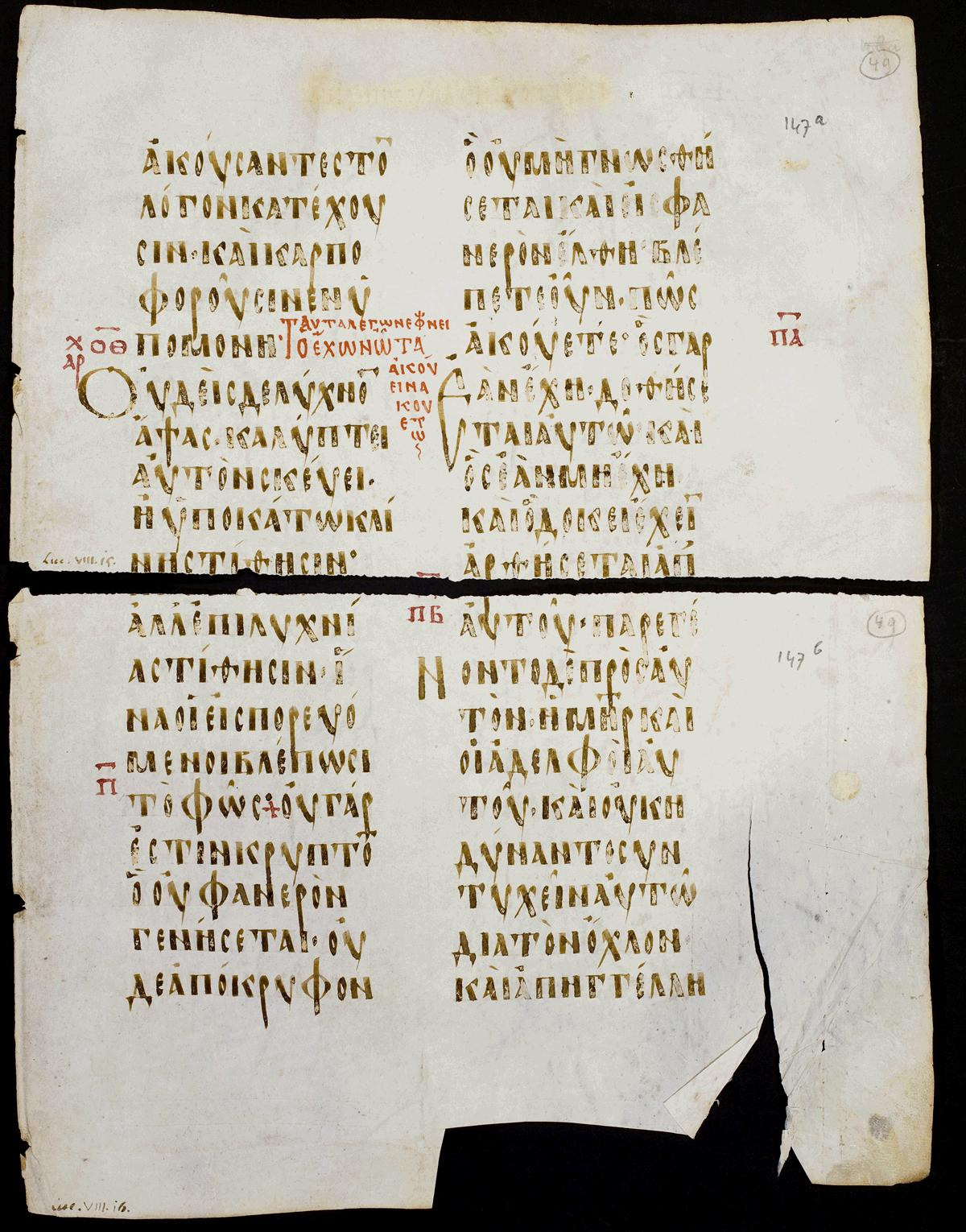 folio 147 recto with text of Luke 6:15b-20a